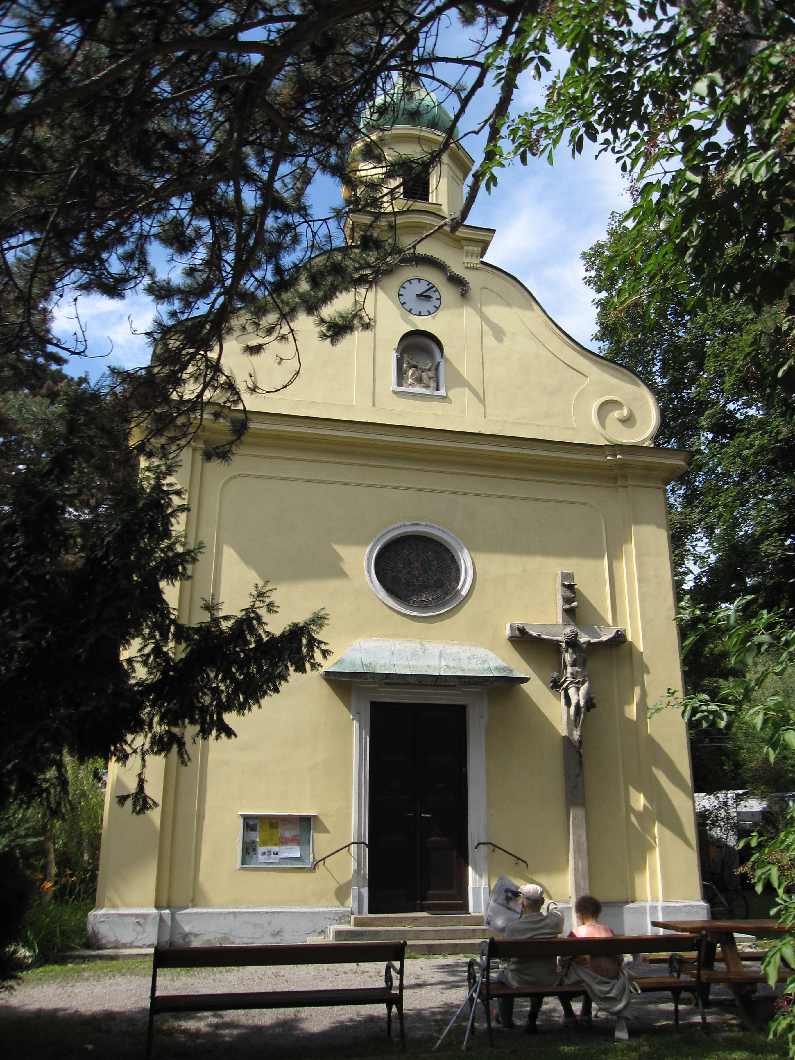 St. Anne's Chapel in Dornbach, Vienna